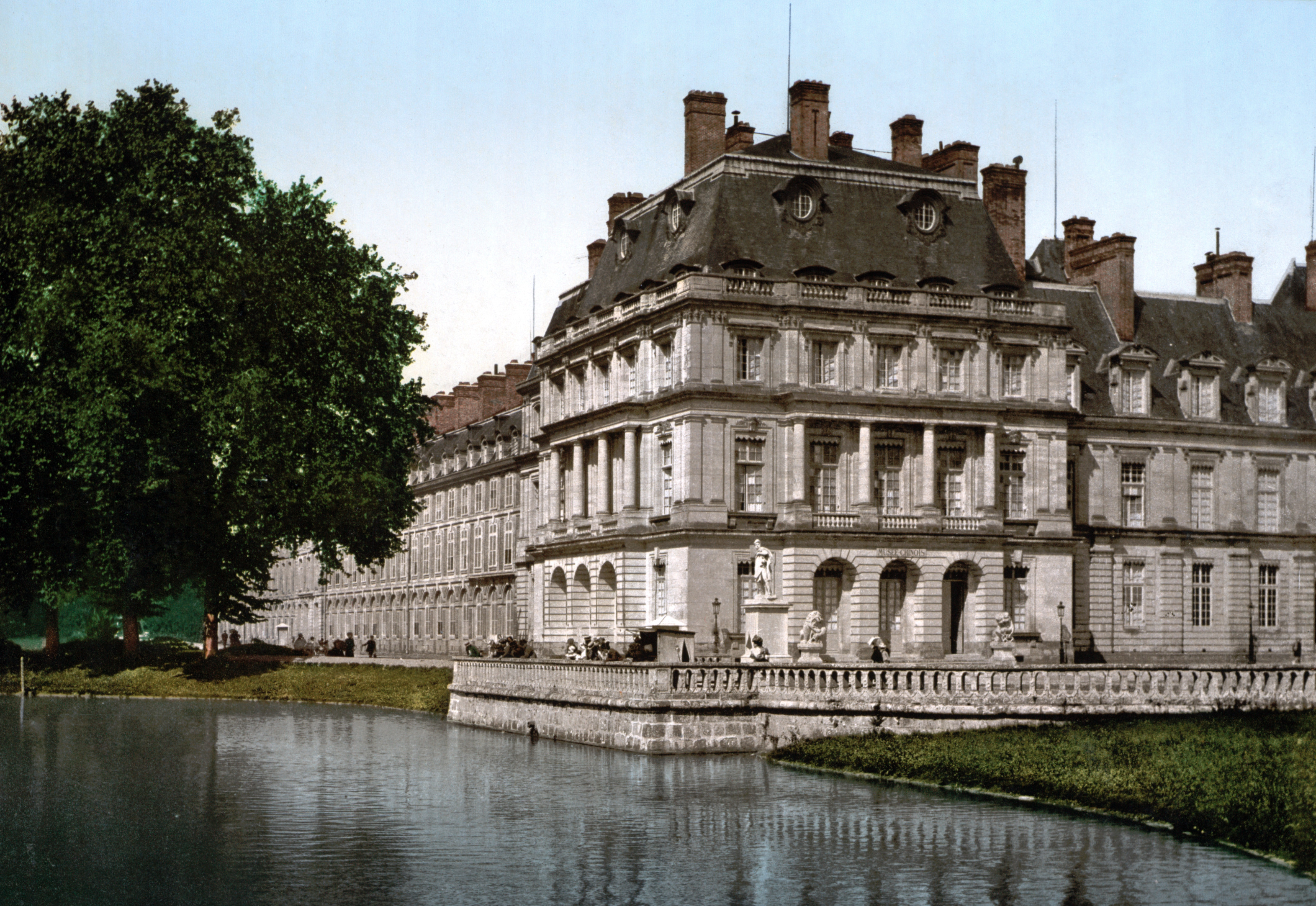 Château of Fontainebleau and the carp's pond